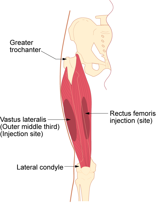 Vatus lateralis site and rectus femoris site for intramuscular (IM) injection